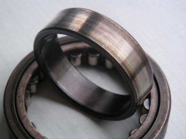 Traces of brown on the bearing race show the beginning a seizure.